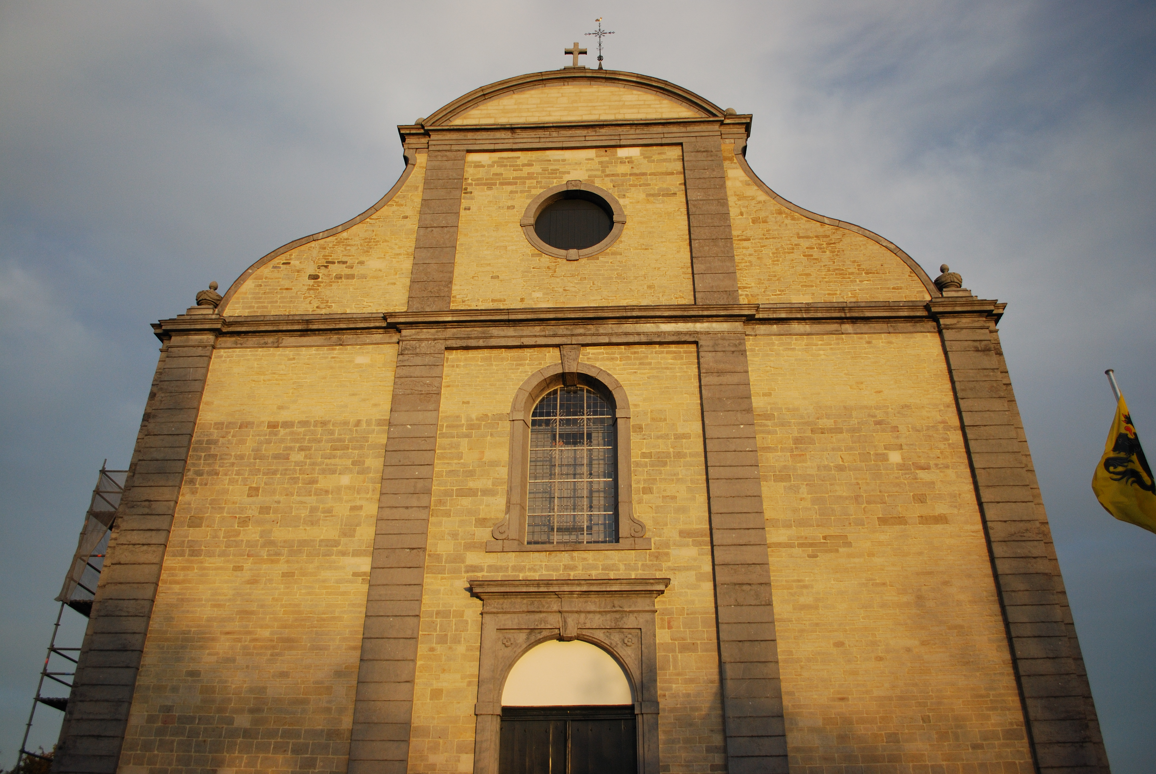 Church of Saint Remigius at the village of Wambeek, commune of Ternat, Belgium. View from the West showing the front of the Church. Nikon D60 f=18mm f/3.5 1/1250s at ISO 200. Manual lighting and colour correction using Nikon ViewNX 1.0.3